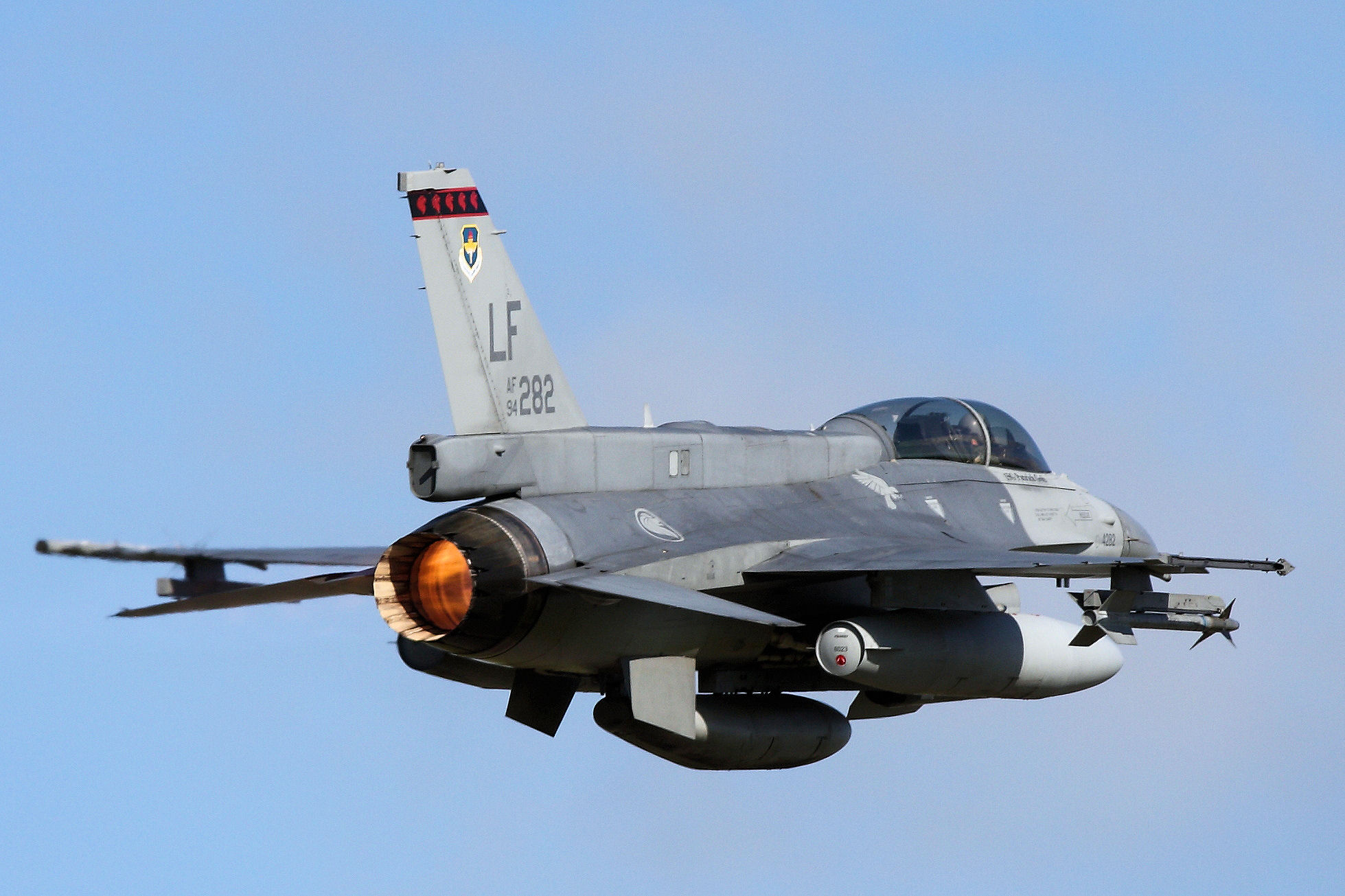 An F-16 Fighting Falcon from the 425th Figher Squadron, Luke Air Force Base flies over Cold Lake, Canada during the Maple Flag exercise June 4 2009.